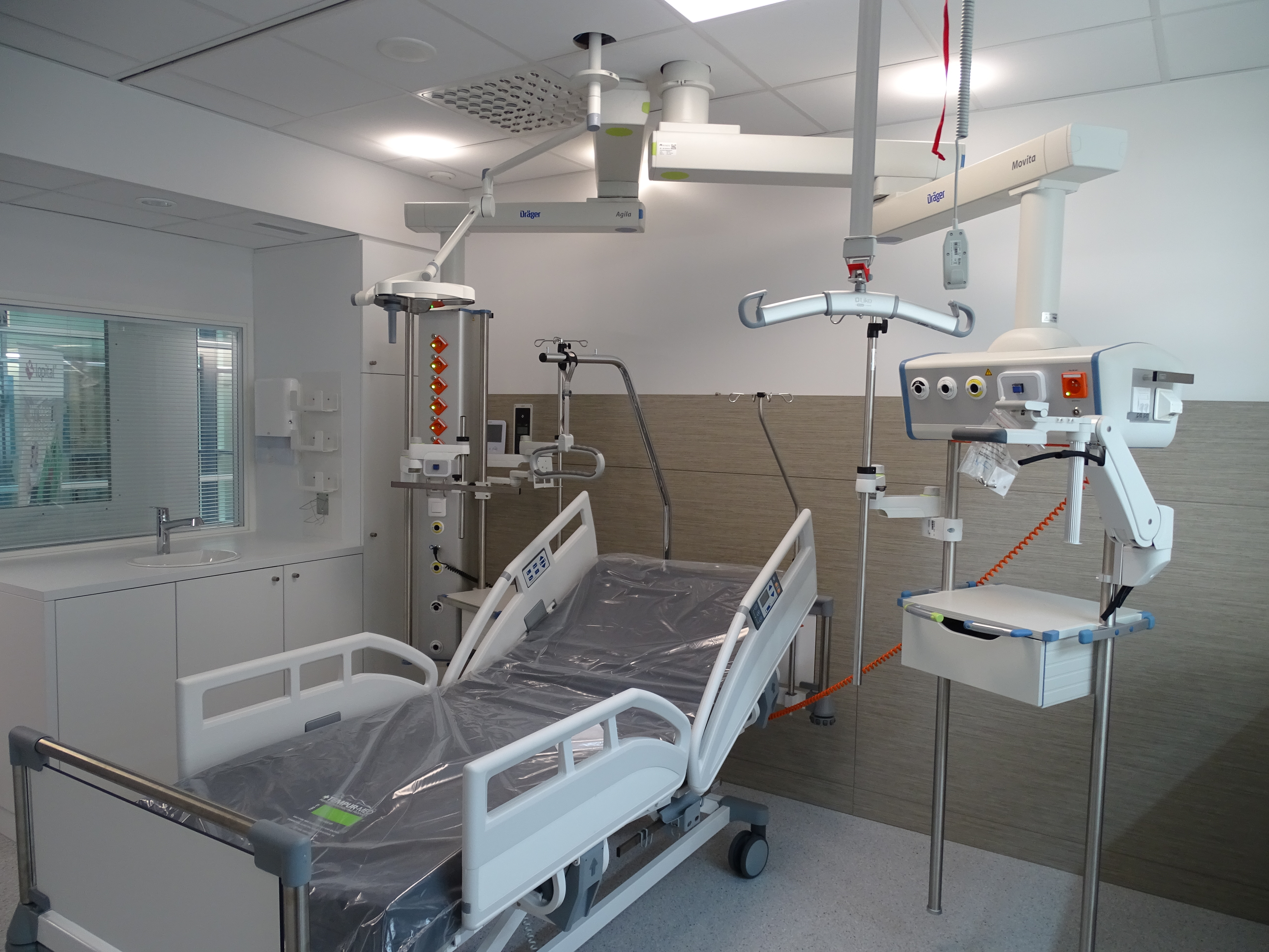 Intensive care unit in Algemeen ziekenhuis St-Maarten (Saint Martin's General Hospital) at Mechelen, Flanders, Belgium.